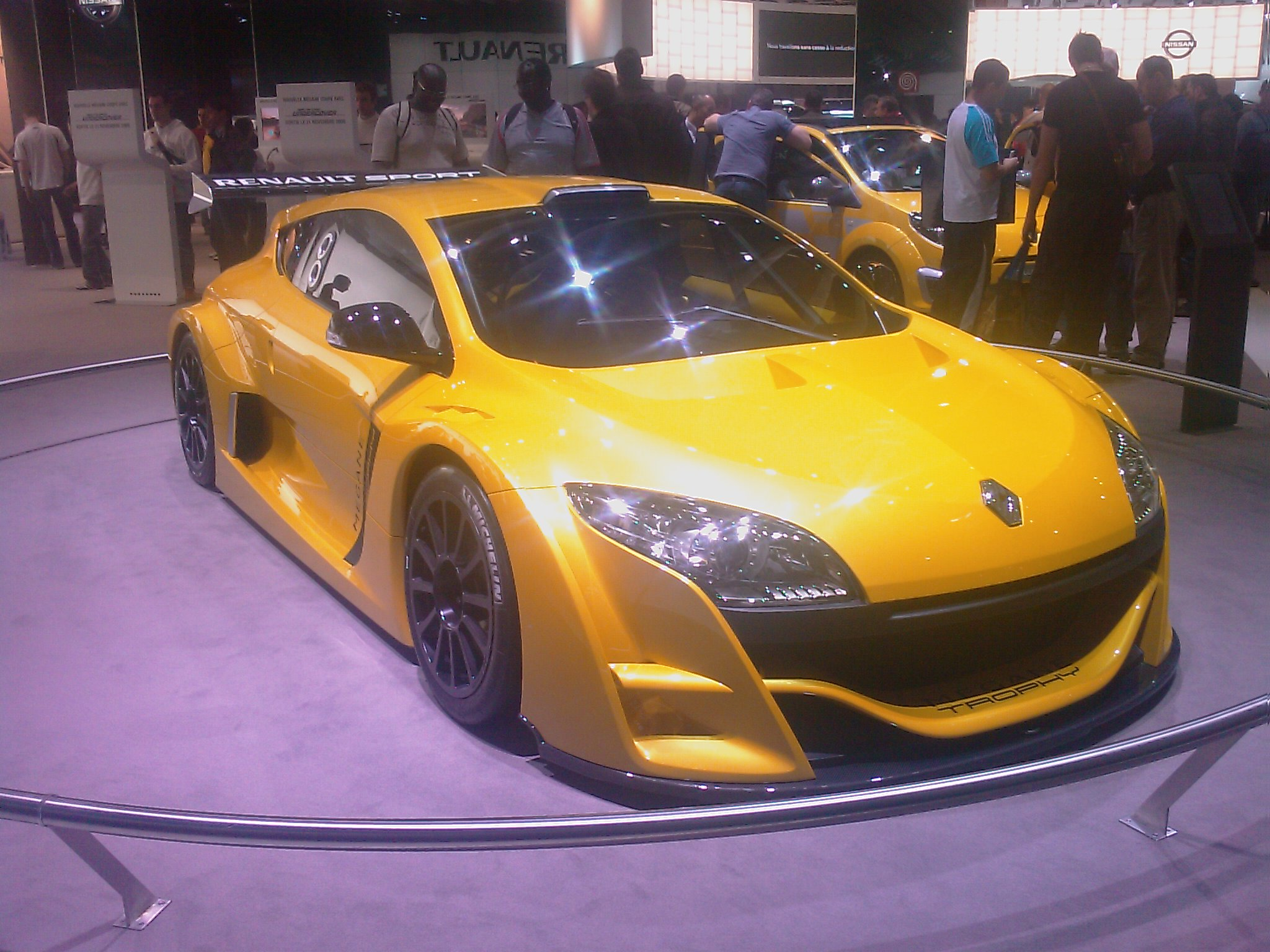 Renault Mégane III RS Trophy